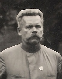 Wilhelm Robert Karl Anderson (1880-1940) ca 1930 in Tartu (from a family photo)